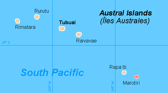 Location of Marotiti (Bass Rocks) within Austral Islands